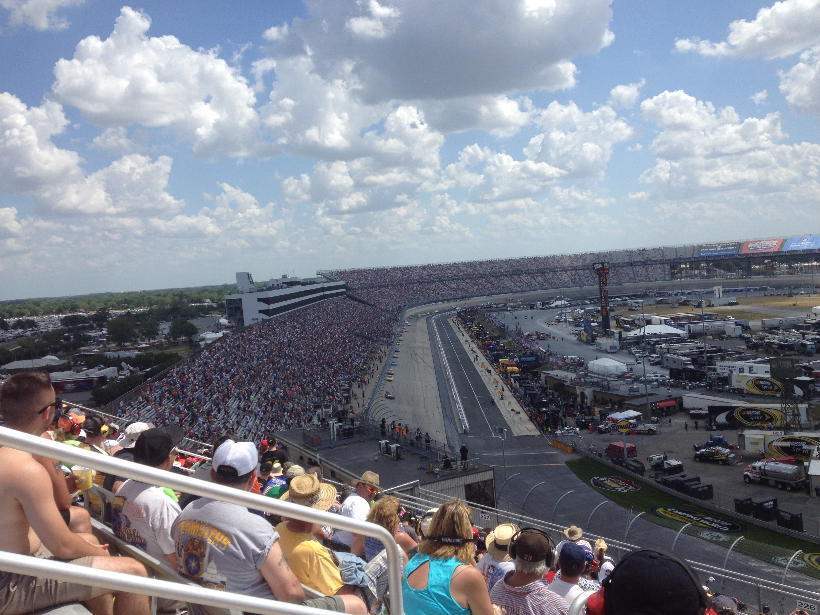 The 2015 FedEx 400 at Dover International Speedway viewed from turn 1, with Martin Truex Jr. (#78) leading the field on lap 186 following a restart from a caution